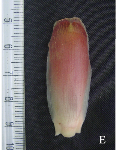 Amomum nilgiricum, bract